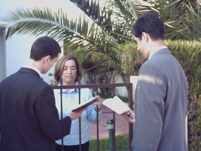 Jehovah's Witnesses proselytizing